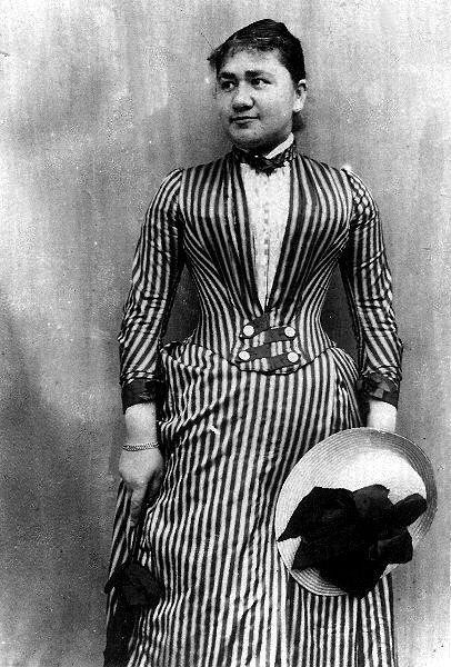 Edited version of Image:Pauline Koch.jpg